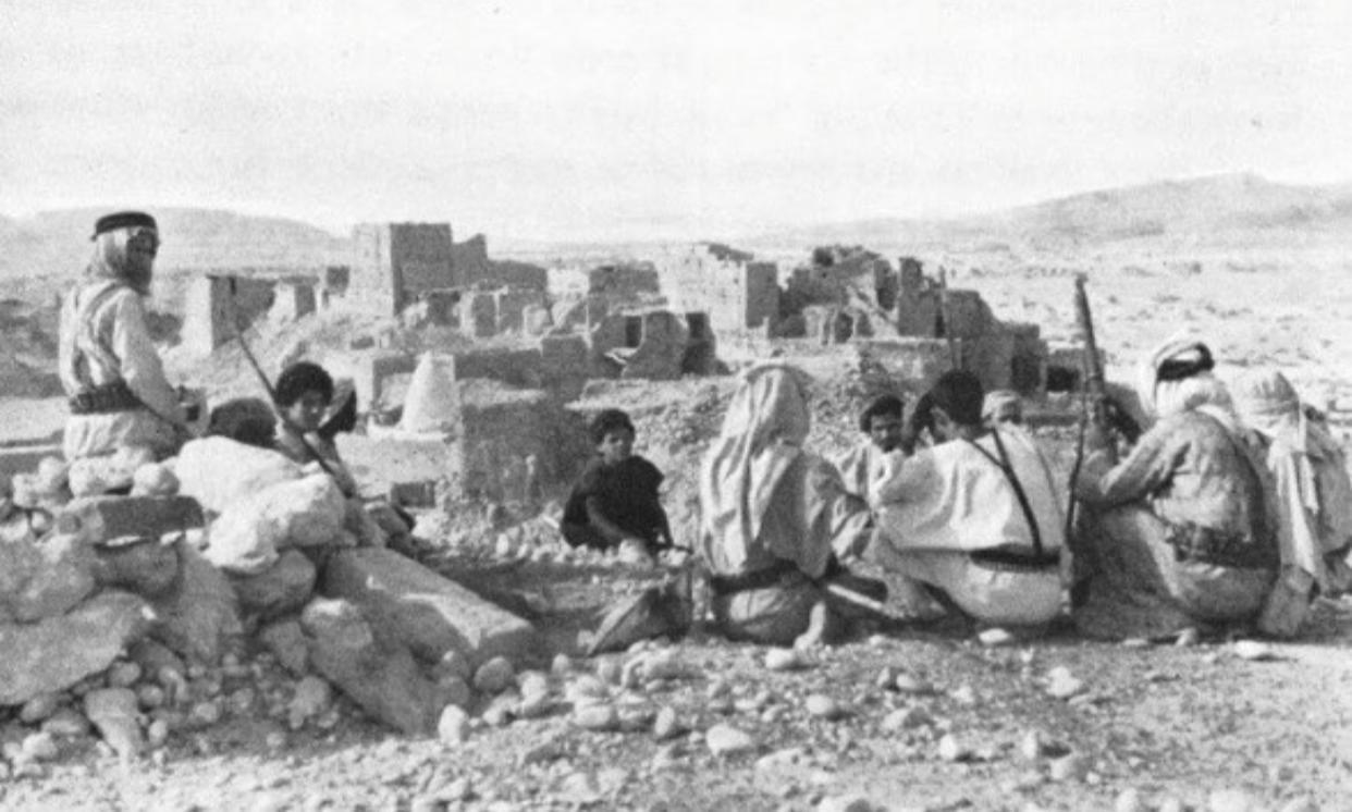 Picture of ancient Lisbon This photograph was filmed in 1936 by Chancellor John Philippe.